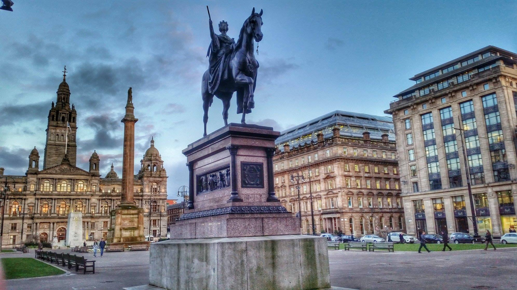 Statue of Queen Victoria on horseback. George Square, Glasgow